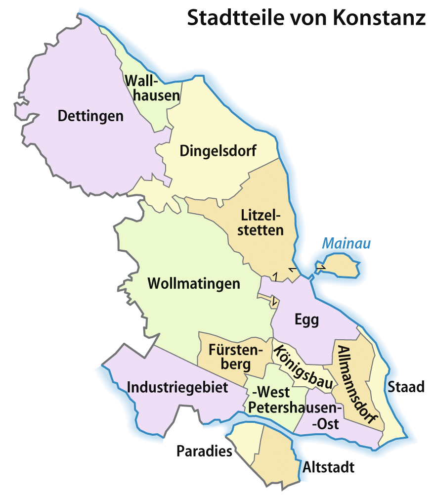 Map of the boroughs of Konstanz, Germany